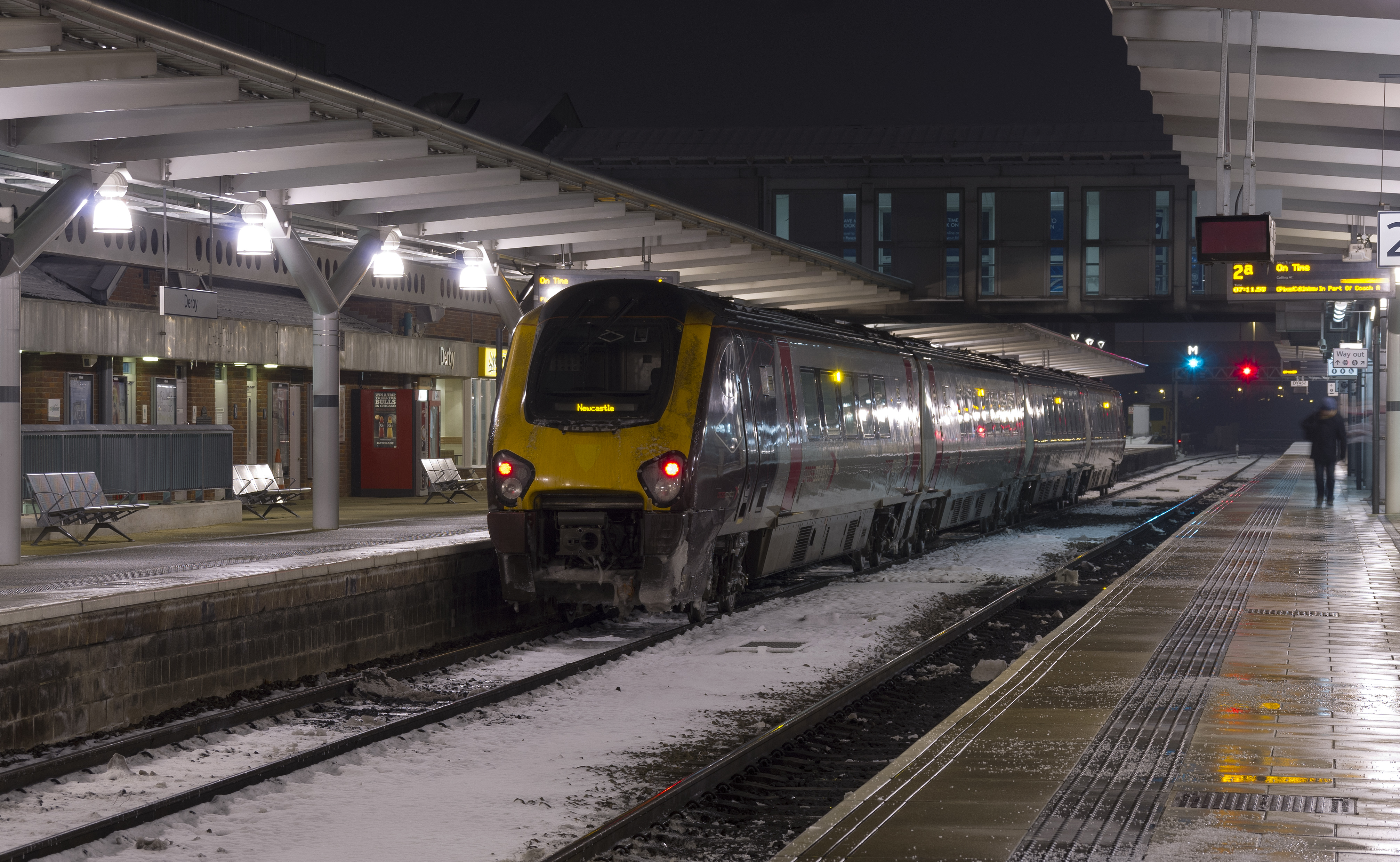 Early morning at the snow-covered Derby railway station. CrossCountry class 220 "Voyager" DEMU 220013 stands at the platform with a service for Newcastle.